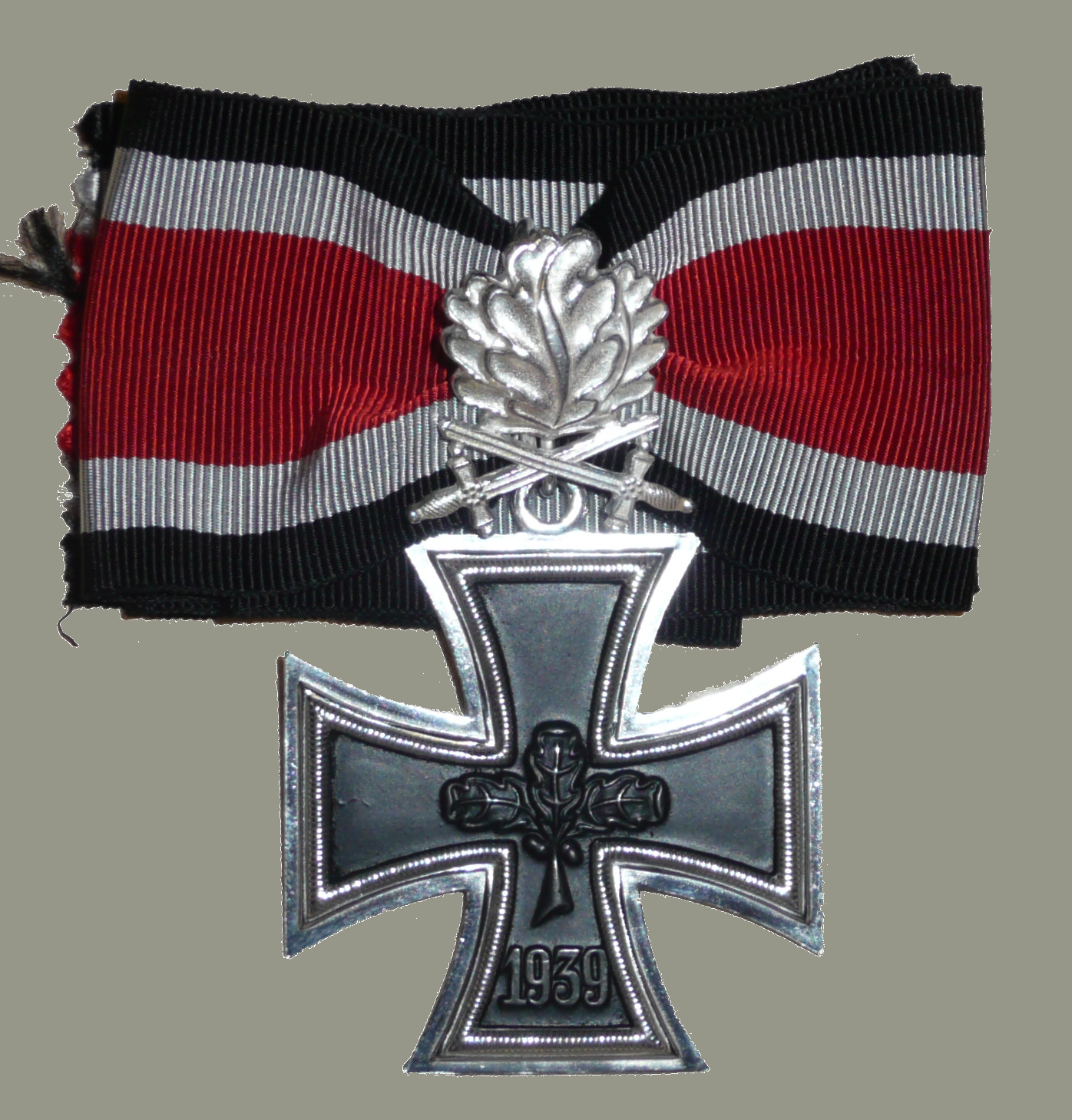 Knight's Cross of the Iron Cross with Oak Leaves and Swords (replica 1957).